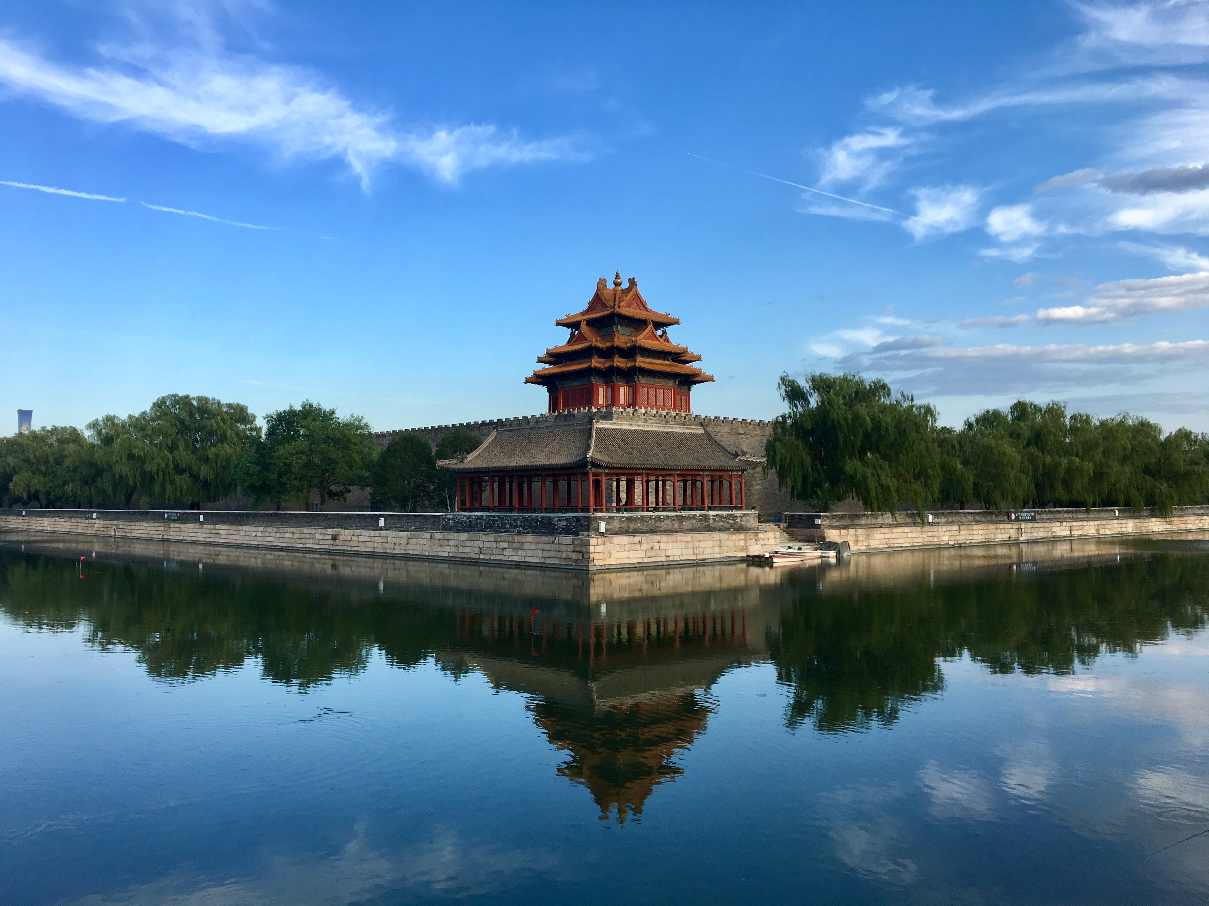 Corner Tower of the Forbidden City, Beijing 故宫角楼，北京